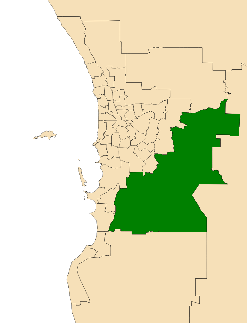 Location of the electoral district of Darling Range in the Perth metropolitan area, Western Australia as of the 2017 WA state election.